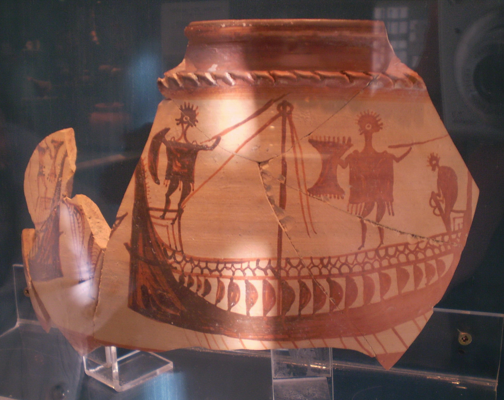 Archeological find from the ancient Greek city "Kynos" (modern Livanates), which depicts for first time ever a naval battle. Can be seen in Archeological Museum of Atalanti.